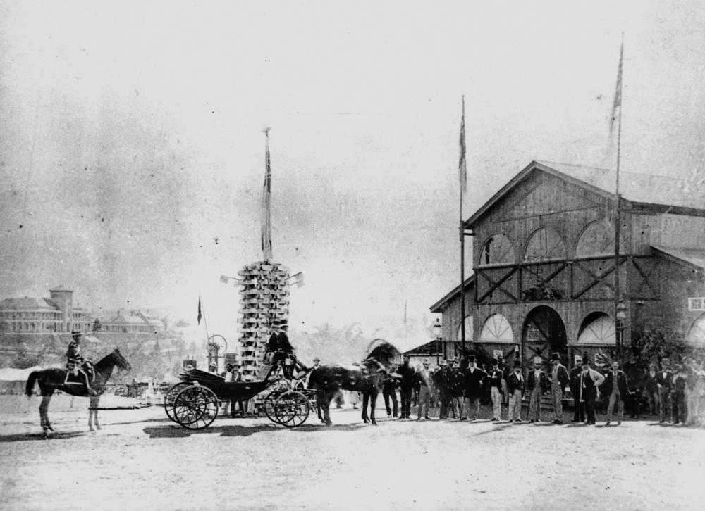 Governor's party arriving at the Queensland Intercolonial Exhibition, Brisbane, 1876 Known locally as the Ekka. The first exhibition on the site of the Brisbane Exhibition Grounds dates to August 1876, with the staging of the first Queensland Intercolonial Exhibition. In 1920 the Prince of Wales [later Edward VIII] visited the Exhibition, following which the Association moved to incorporate the word 'Royal' into its name as the Royal National Agricultural and Industrial Association of Queensland, which over the years has been reduced, unofficially, to the Royal National Association [RNA].